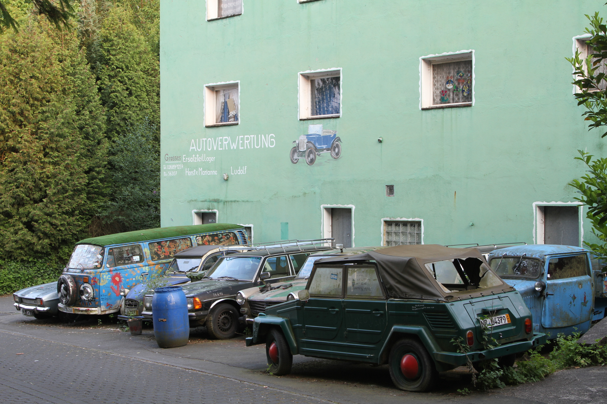 Car dismantling Ludolf seen from street in Dernbach, Landkreis Neuwied, Rhineland-Palatinate, Germany